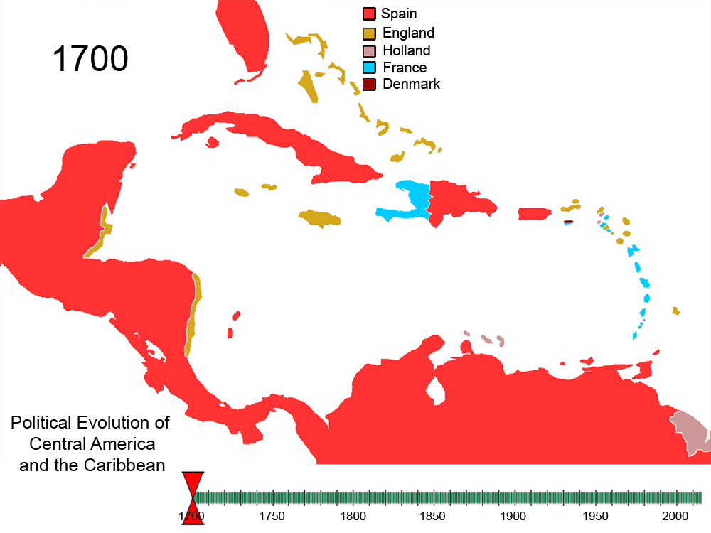 Political Evolution of Central America and the Caribbean